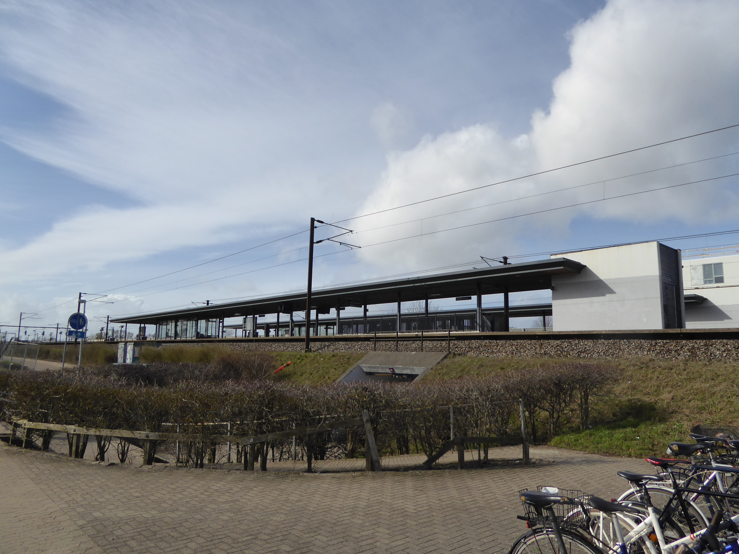 Trekroner Station on Vestbanen in Denmark.